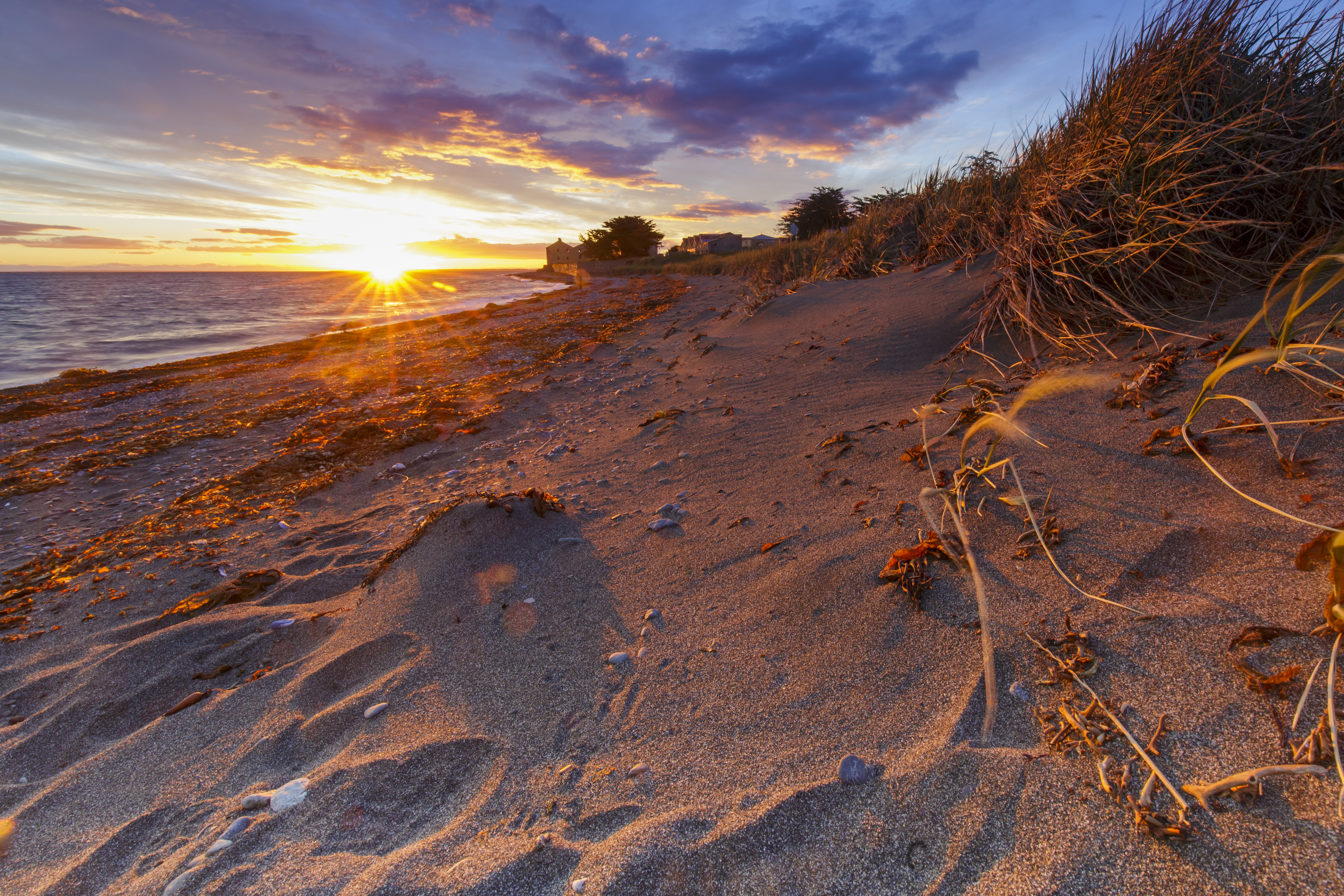 PanAmericana 2017 - the image was taken on an overlanding travel from Ushuaia to Anchorage - taken by Thomas Fuhrmann, SnowmanStudios - see more pictures on / mehr Aufnahmen auf